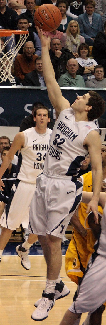 Jimmer Fredette finger roll vs. Wyoming, March 5, 2011